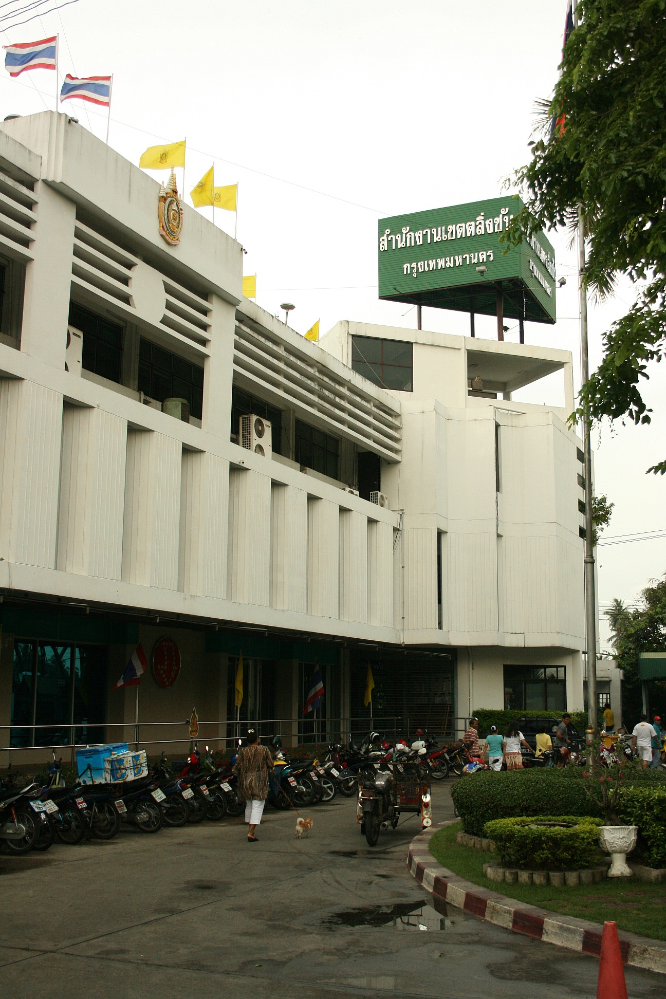 Taling Chan district office